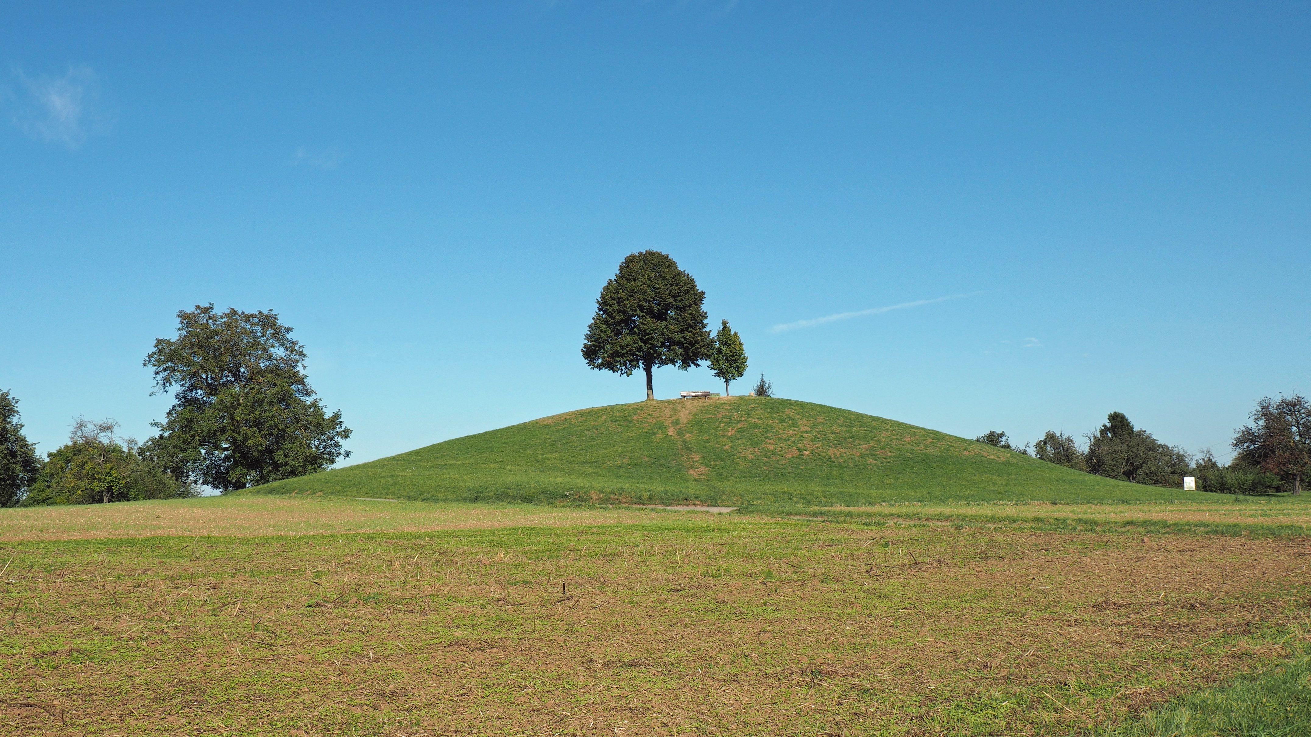 The Kleinaspergle is a Celtic grave mound near Asperg